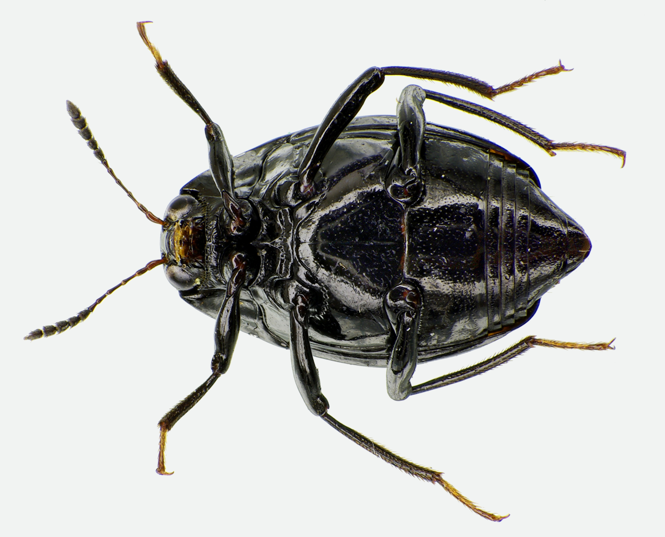 Scaphidium quadrimaculatum from West France, Hostens about 30 km south of Bordeaux, under bark of dead poplar tree at 2013-05-02